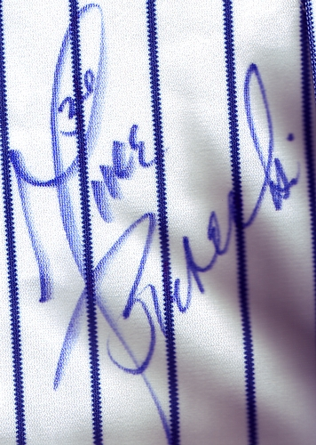 Signature of former professional baseball pitcher Mike Bielecki on a Chicago Cubs uniform.This image was scanned using a Canon CanoScan LiDE 60 scanner and edited (sharpness, contrast, brightness) using ArcSoft PhotoStudio 5.5